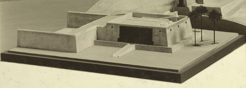 Model of the Valley Temple of King Sahure's Pyramid at Abusir Collection: A. D. White Architectural Photographs, Cornell University Library Accession Number: 15/5/3090.01488 Title: Metropolitan Museum Collection. Model of King Sahure's Pyramid at Abusir Model builders: Stegemann Brothers Model construction date: 1910 Photograph date: ca. 1910-ca. 1945 Materials: gelatin silver print Image: 9.0551 x 13.3071 in.; 23 x 33.8 cm Style: Egyptian Provenance: Transfer from the College of Architecture, Art and Planning Persistent URI: There are no known U.S. copyright restrictions on this image. The digital file is owned by the Cornell University Library which is making it freely available with the request that, when possible, the Library be credited as its source. We had some help with the geocoding from Web Services by Yahoo!